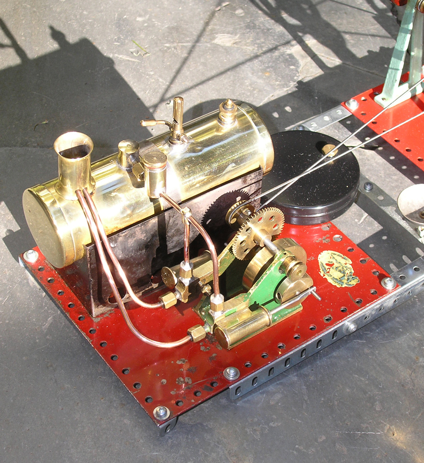 A Mamod SE4 flatbed steam engine taken in bright sunshine, Plymouth.